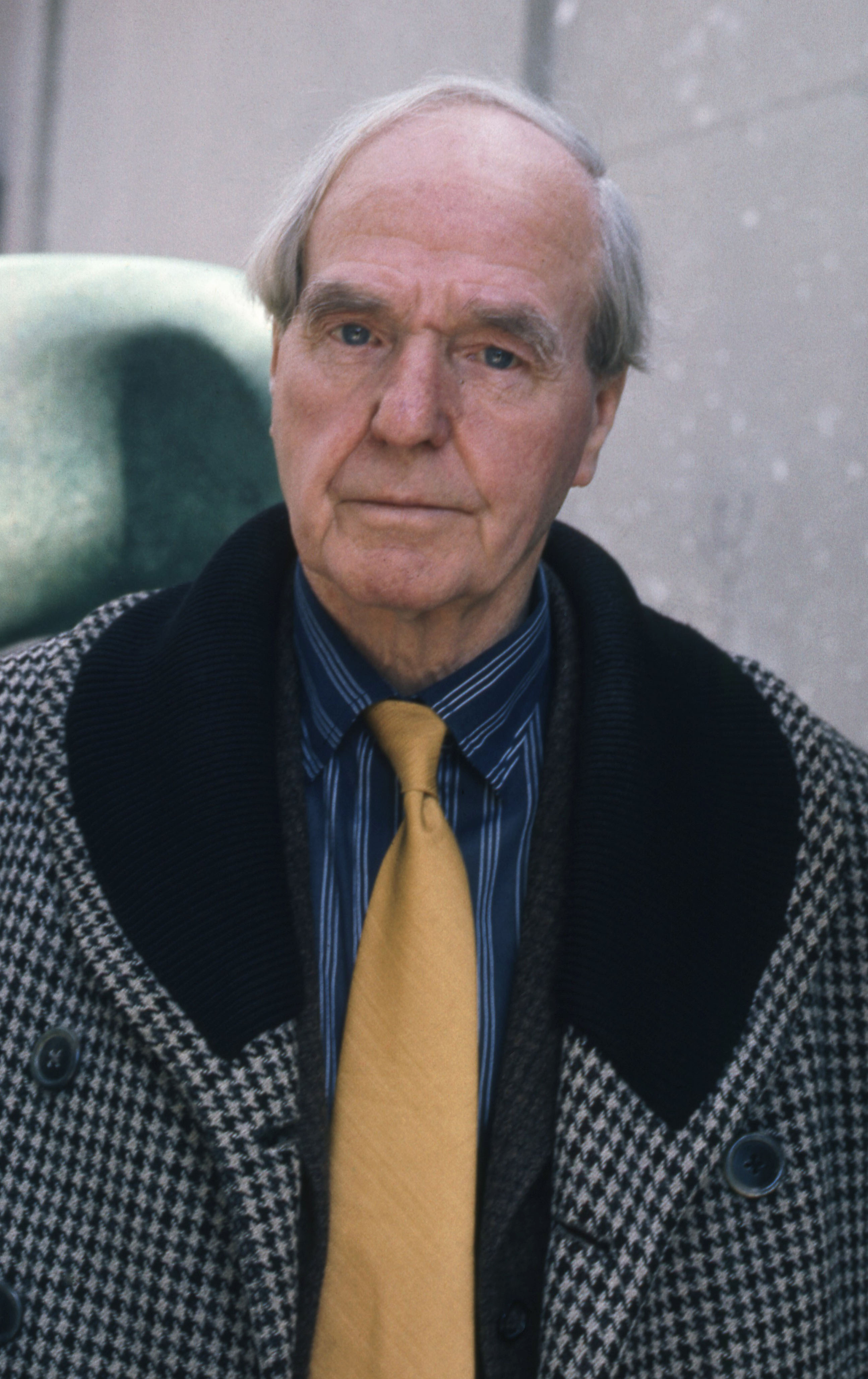 Henry Moore in his studio England